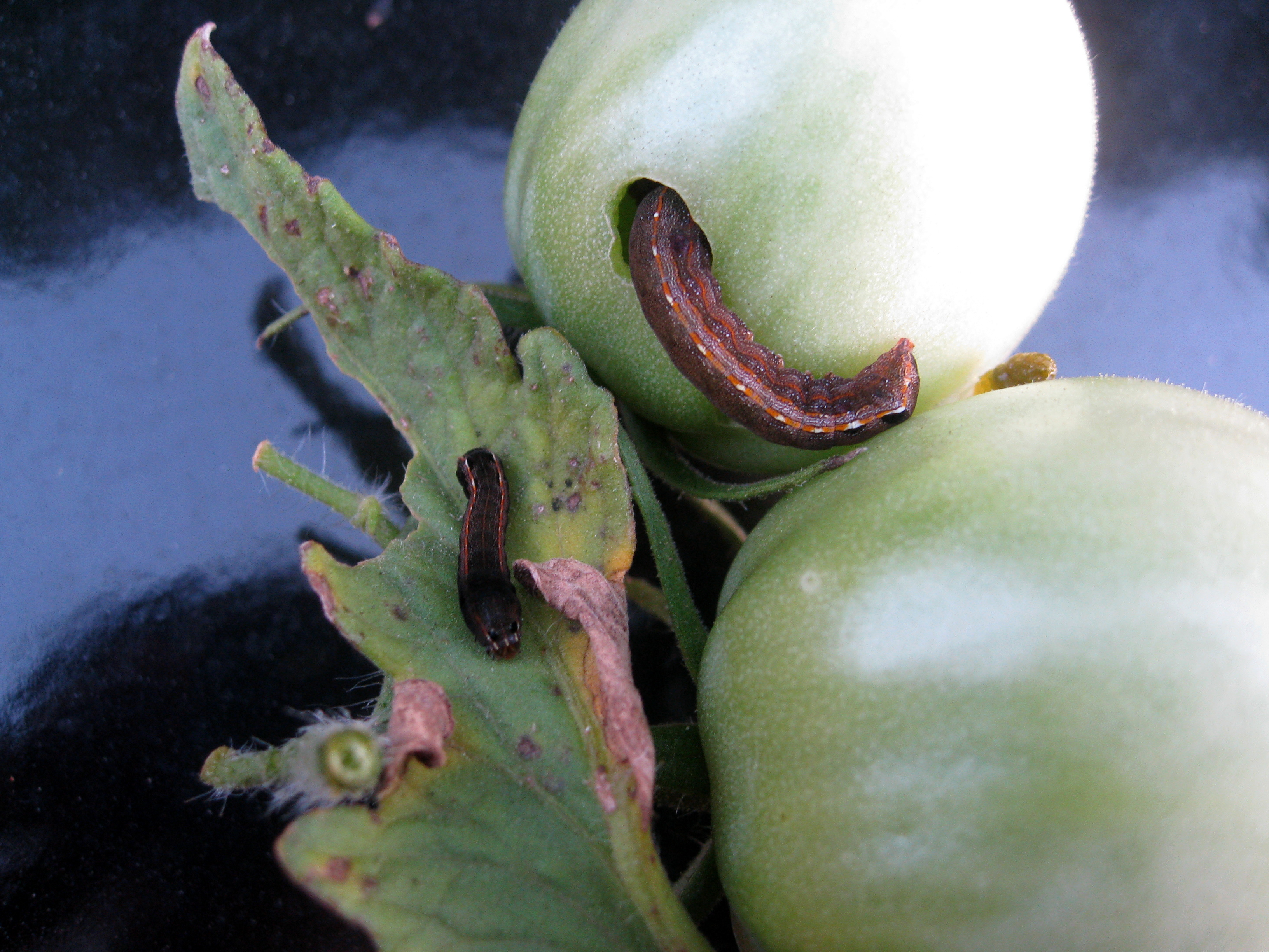 Larva of the Helicoverpa zea.